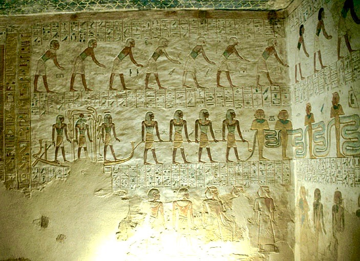 Tomb of Merenptah, KV 8, Scenes from the books of the underworld, Valley of the Kings, Luxor West Bank, Egypt